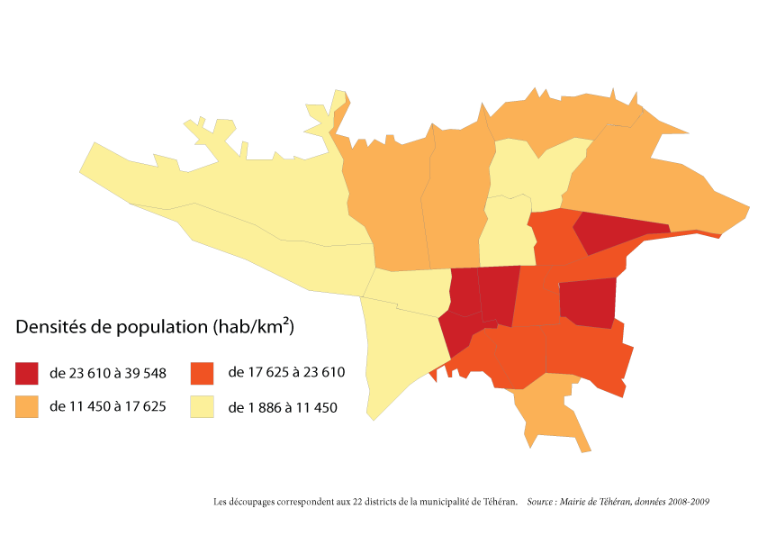 Map of population density in Tehran, capital of Iran.